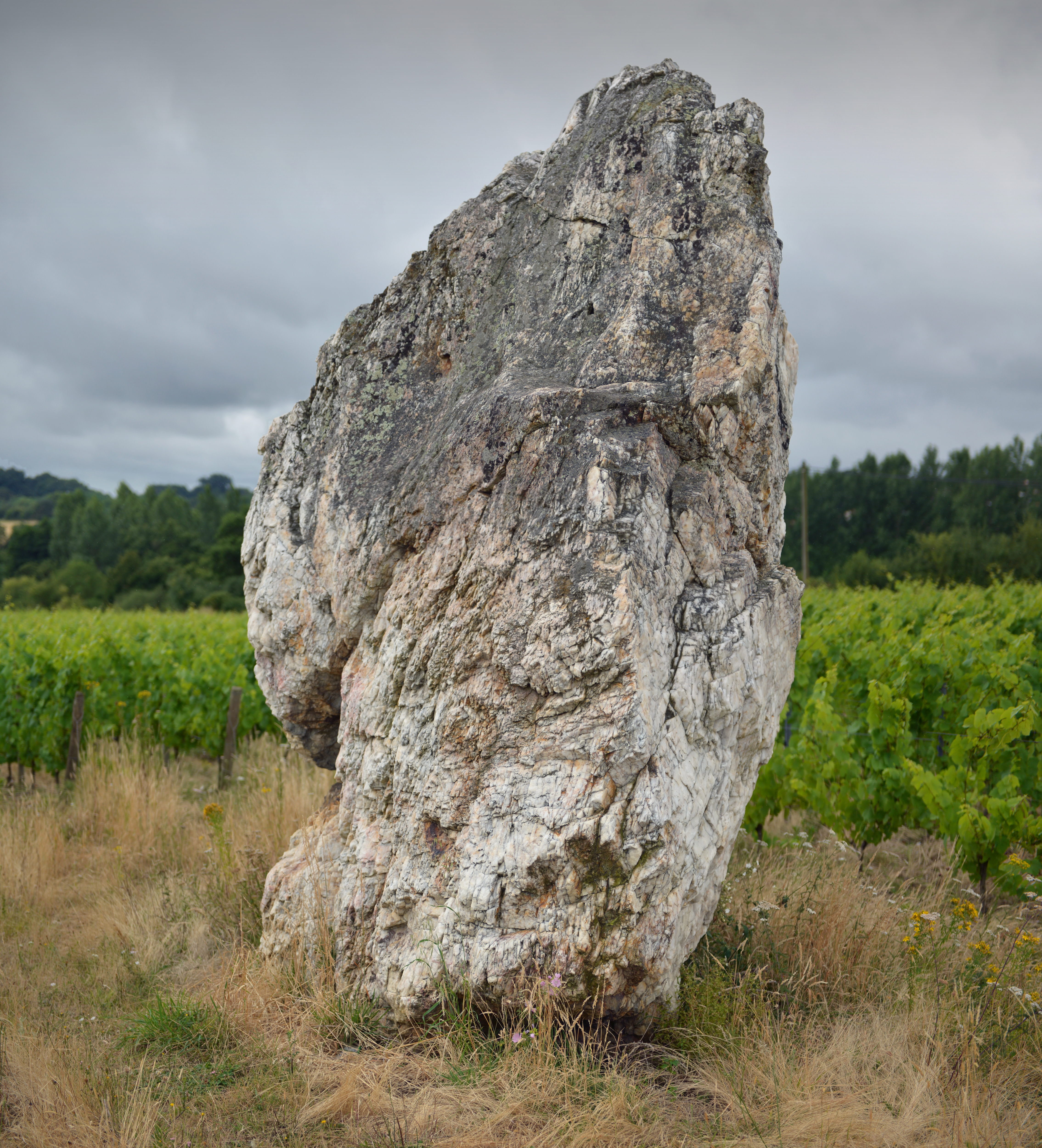 Menhir of "Pierre blanche", Oudon, western France, 2015.